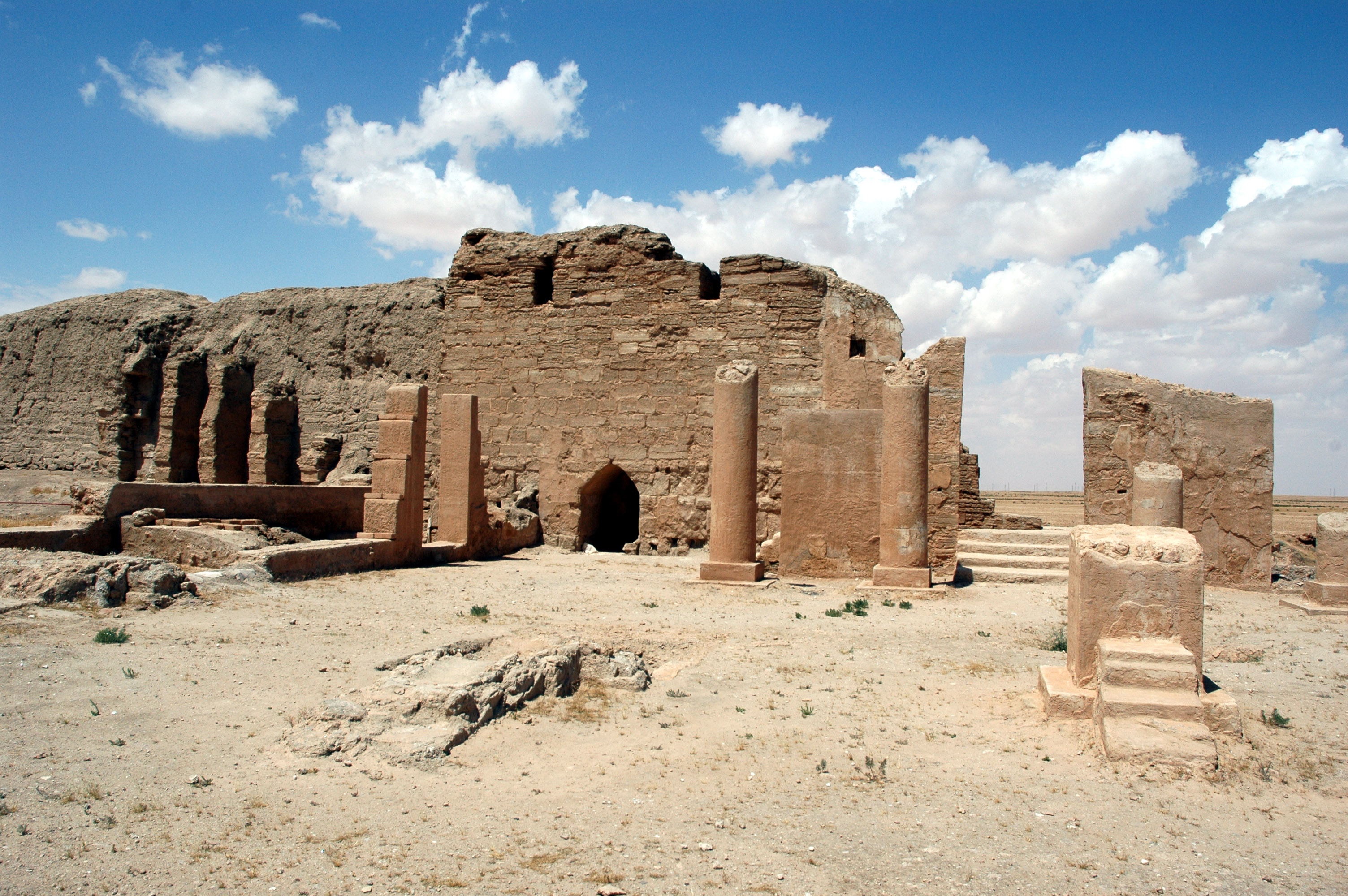 Temple of the Oriental Gods near the city walls, Dura Europos in 2004